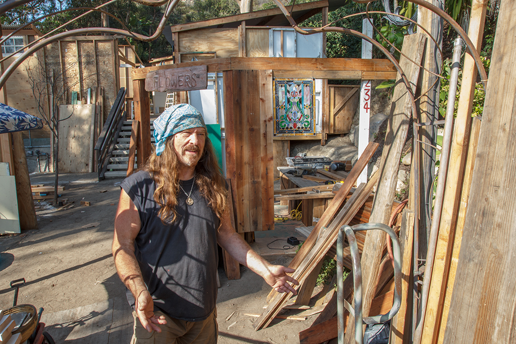 Greg Thorne, long-time exhibitor, building own booth for Sawdust Festival